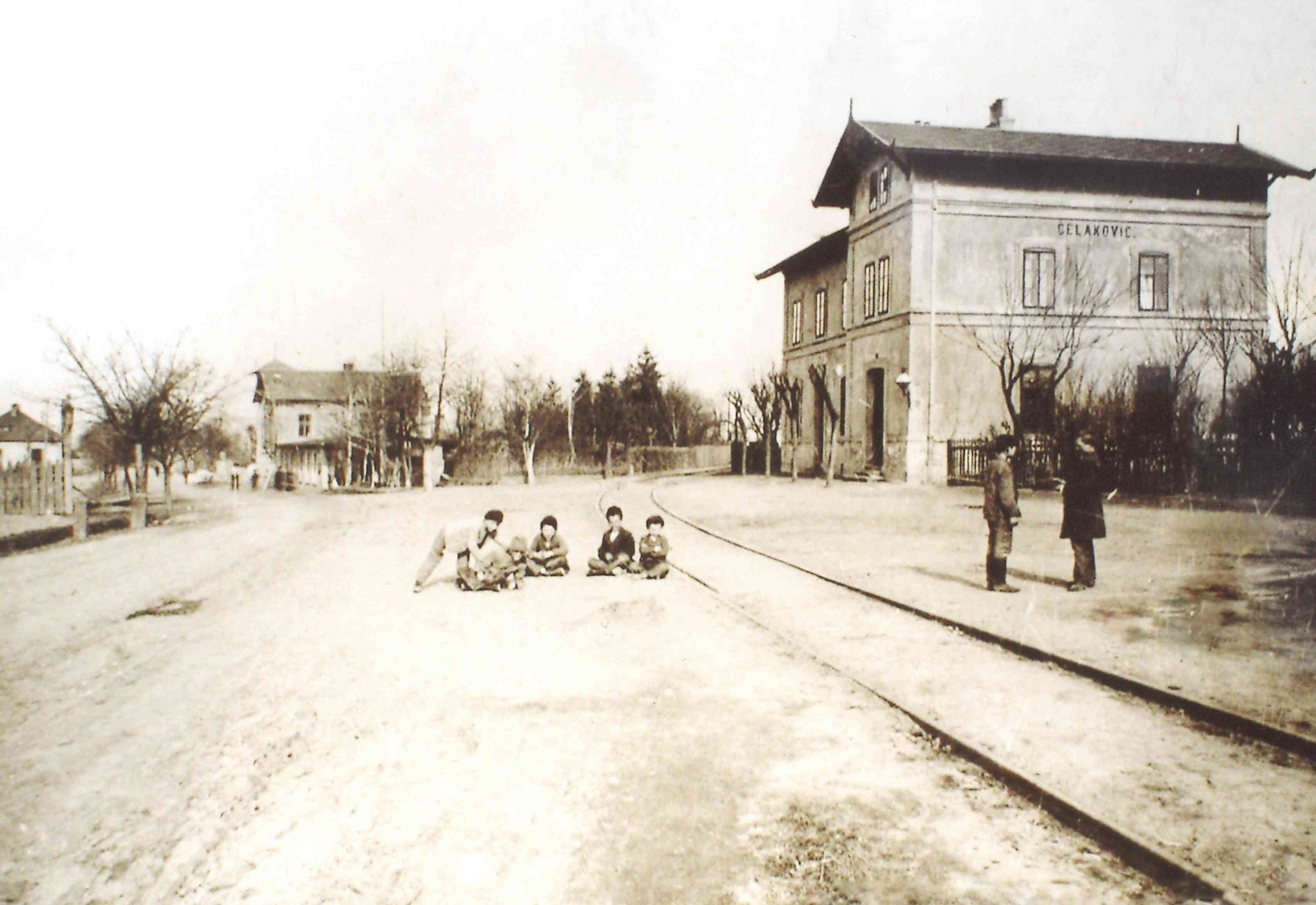 station Celakovice